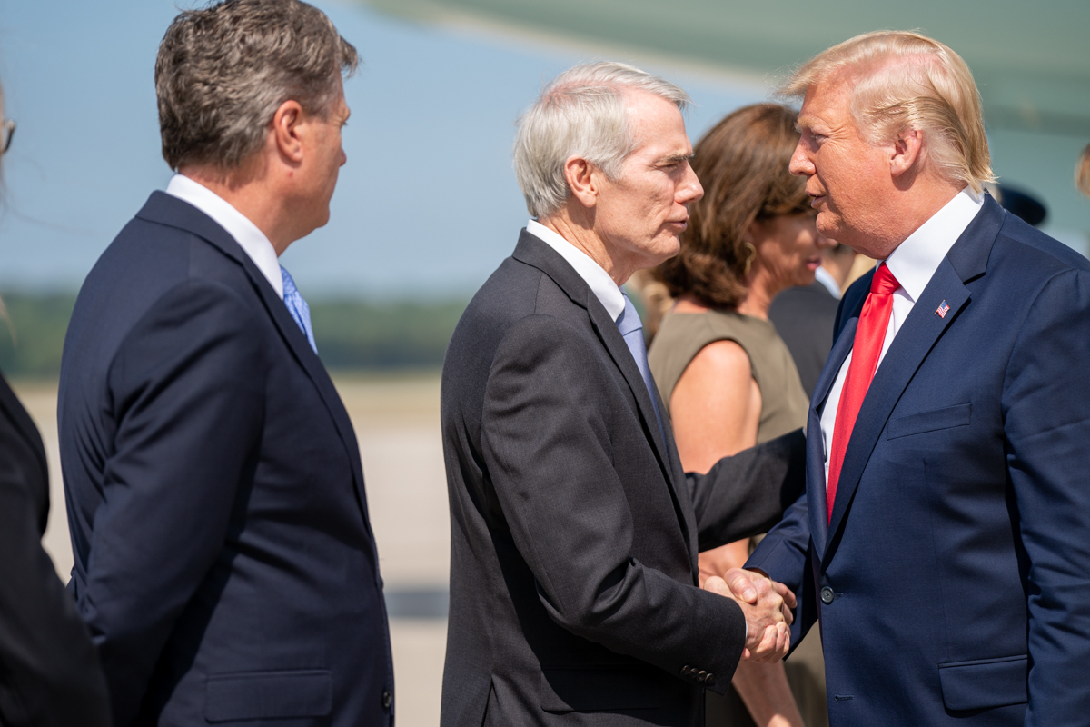 President Donald J. Trump and First Lady Melania Trump are greeted by Ohio U.S. Senator Rob Portman Wednesday, Aug. 7, 2019, at Wright-Patterson Air Force Base in Dayton, Ohio, and other state and local officials. (Official White House Photo by Shealah Craighead)